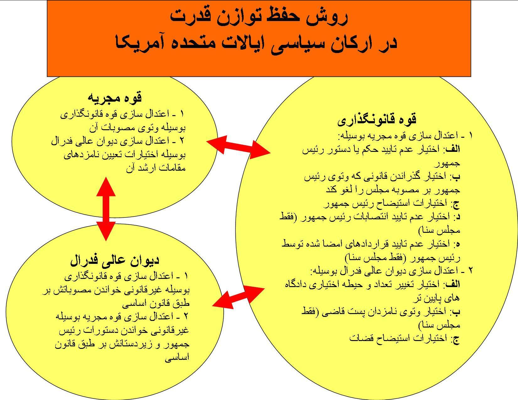 How the centers of power in the U.S. federal government balance each other. i.e. the federal system of Checks and Balances schematically described. Descriptions are in Persian (Farsi)